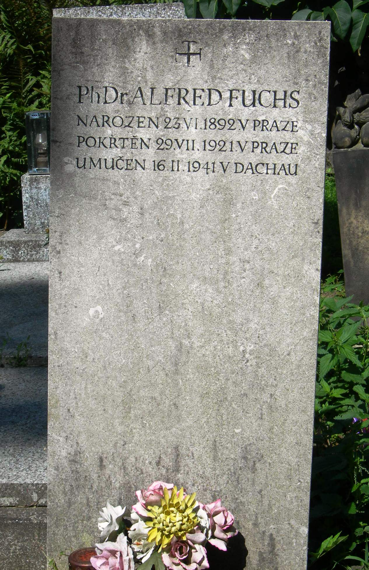 Tombstone of Alfred Fuchs at Brevnov cemetery in Prague